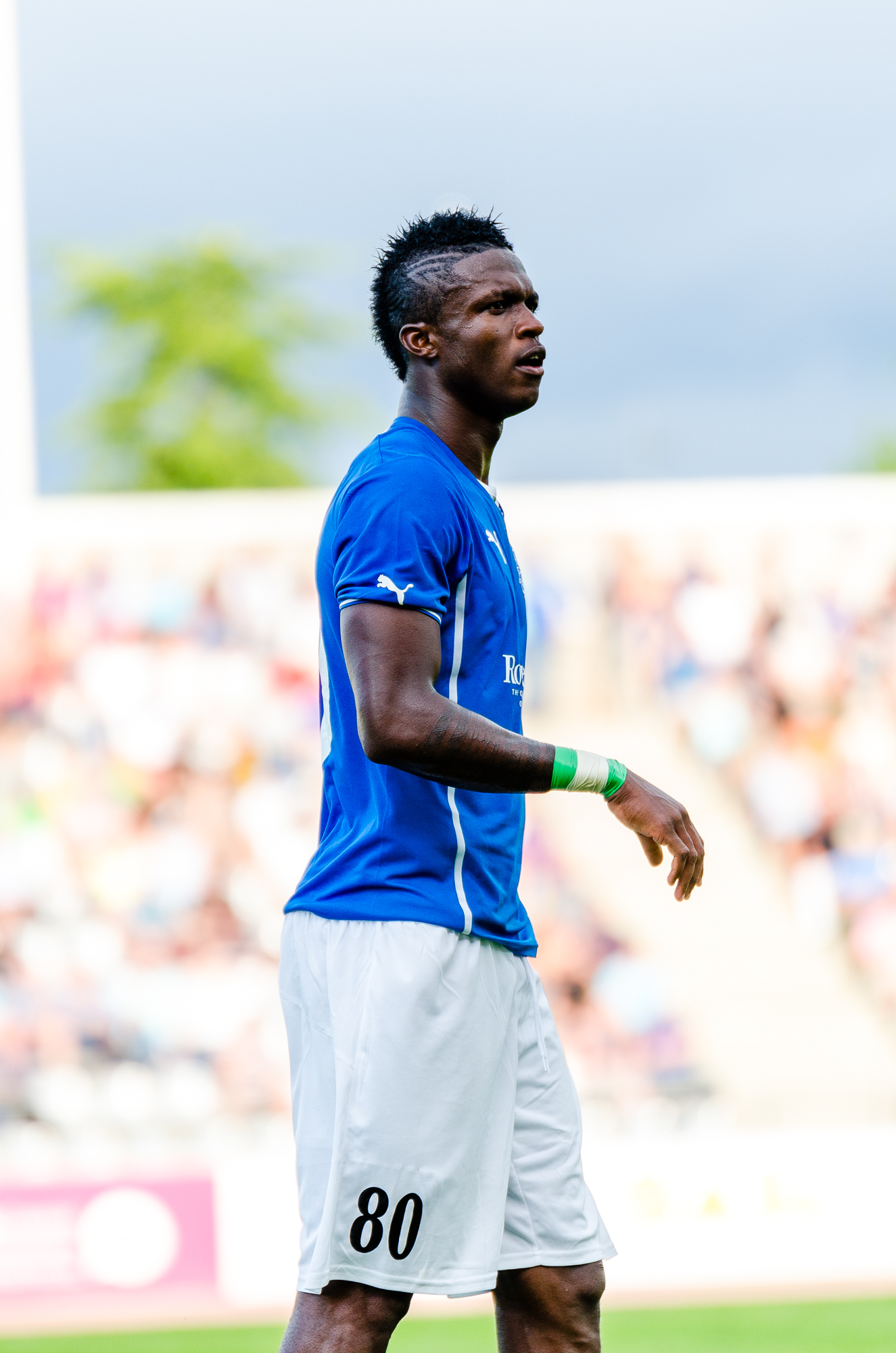 Faith Friday Obilor in RoPS - Asteras Tripolis match on 17th of July 2014.